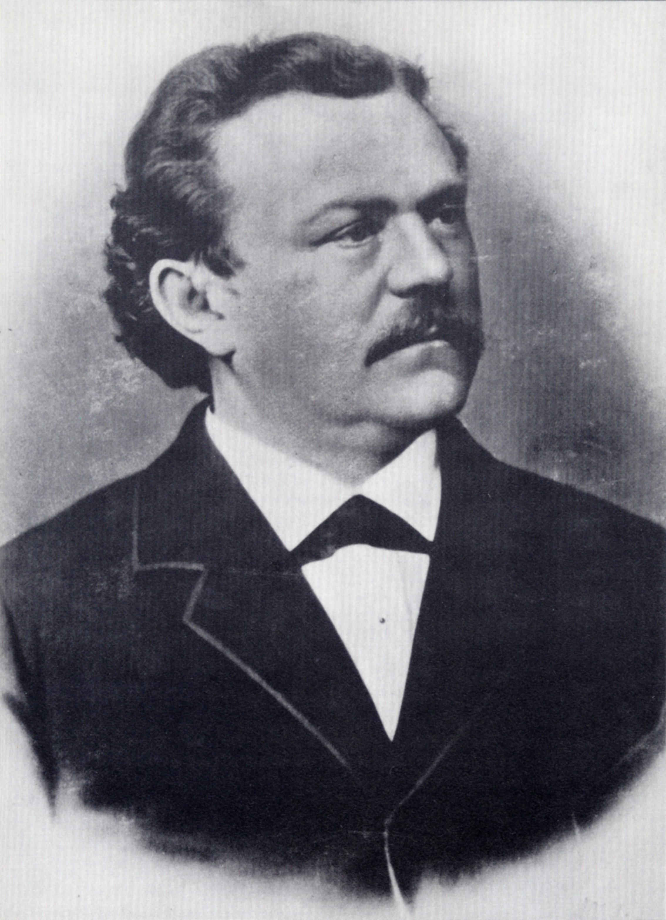 Karl Wüst, mayor of Heilbronn from 1869 to 1884